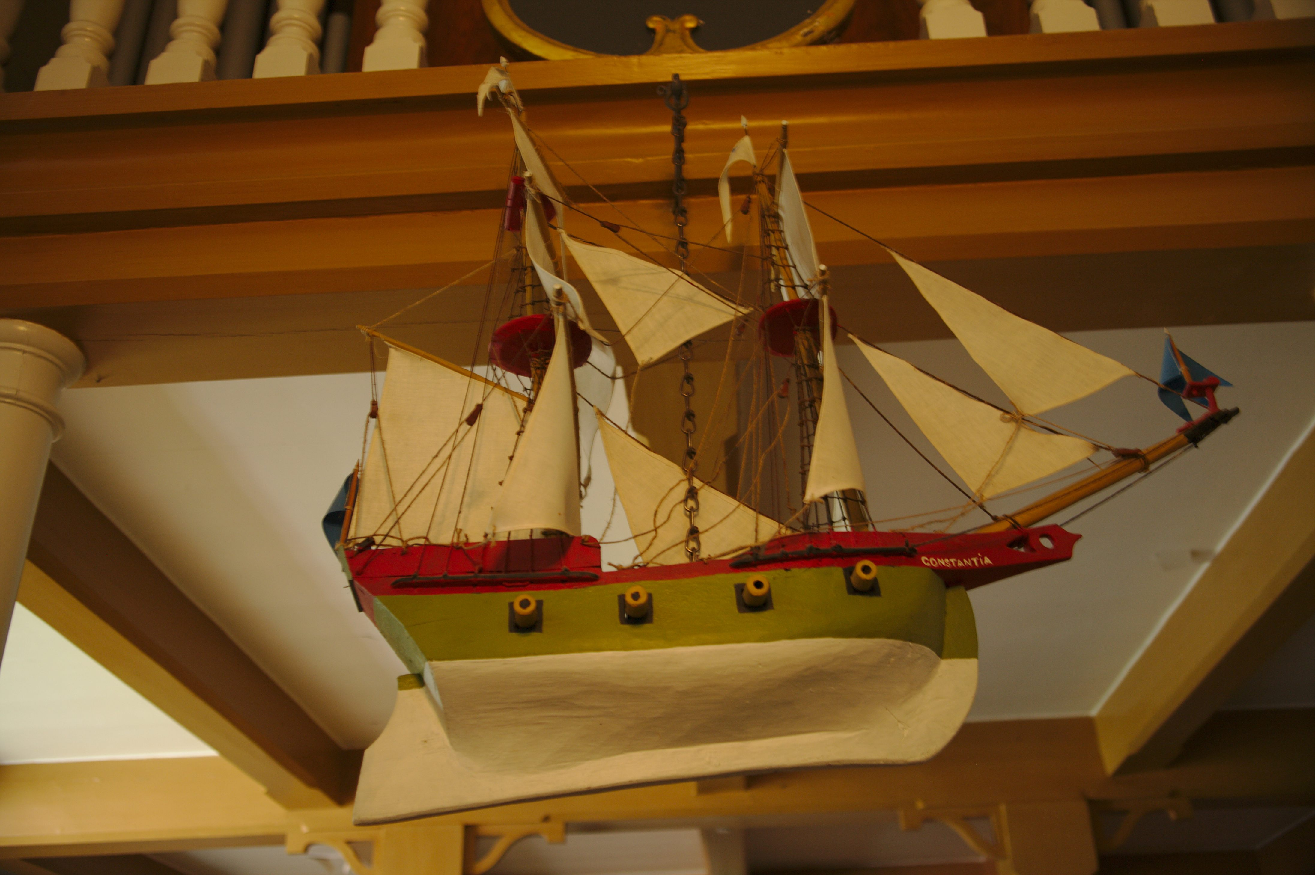 The votive ship in Kustavi Church in Kustavi, Finland.